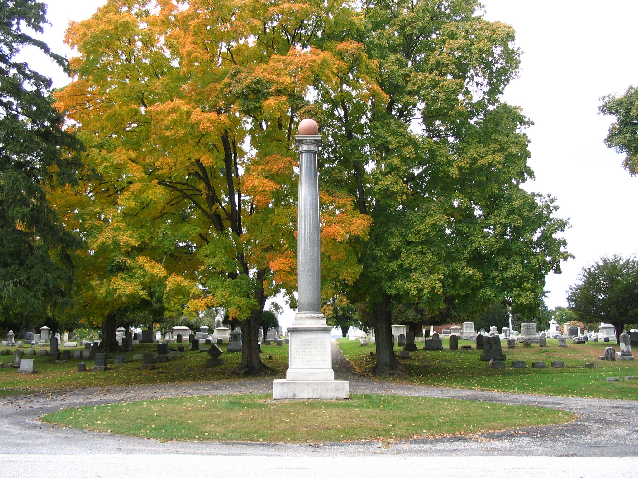 Seth Pomeroy monument in Hillside Cemetery in Peekskill, New York.